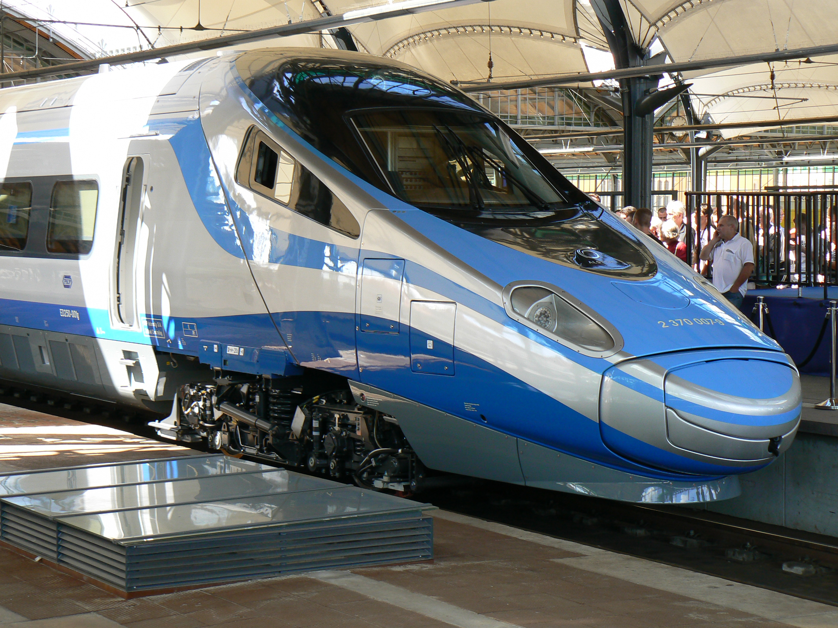 PKP IC Pendolino, photo taken during first presentation in Poland at Wrocław Main Station